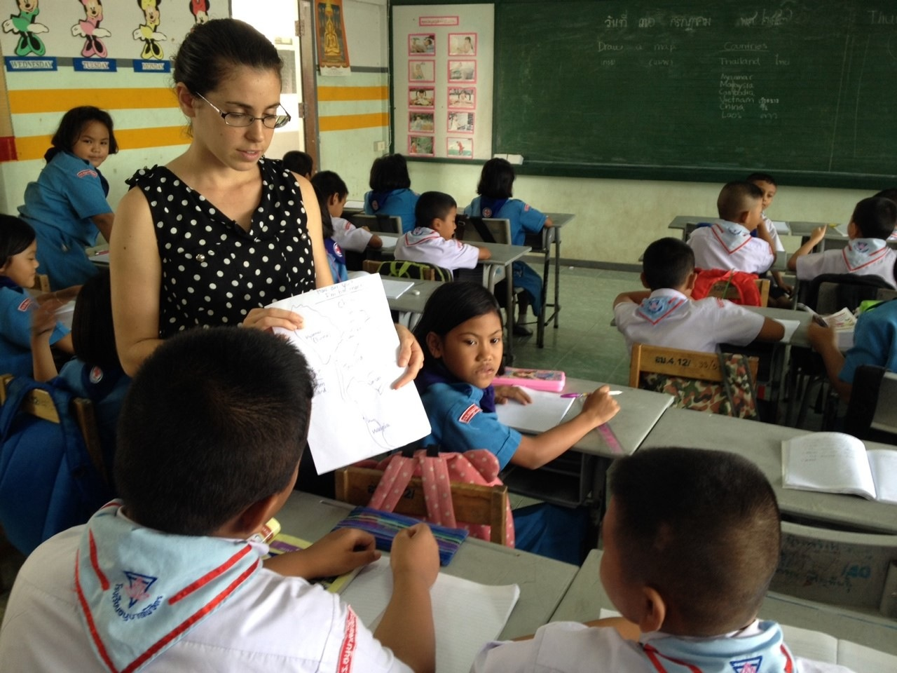 Teacher Lena classroom